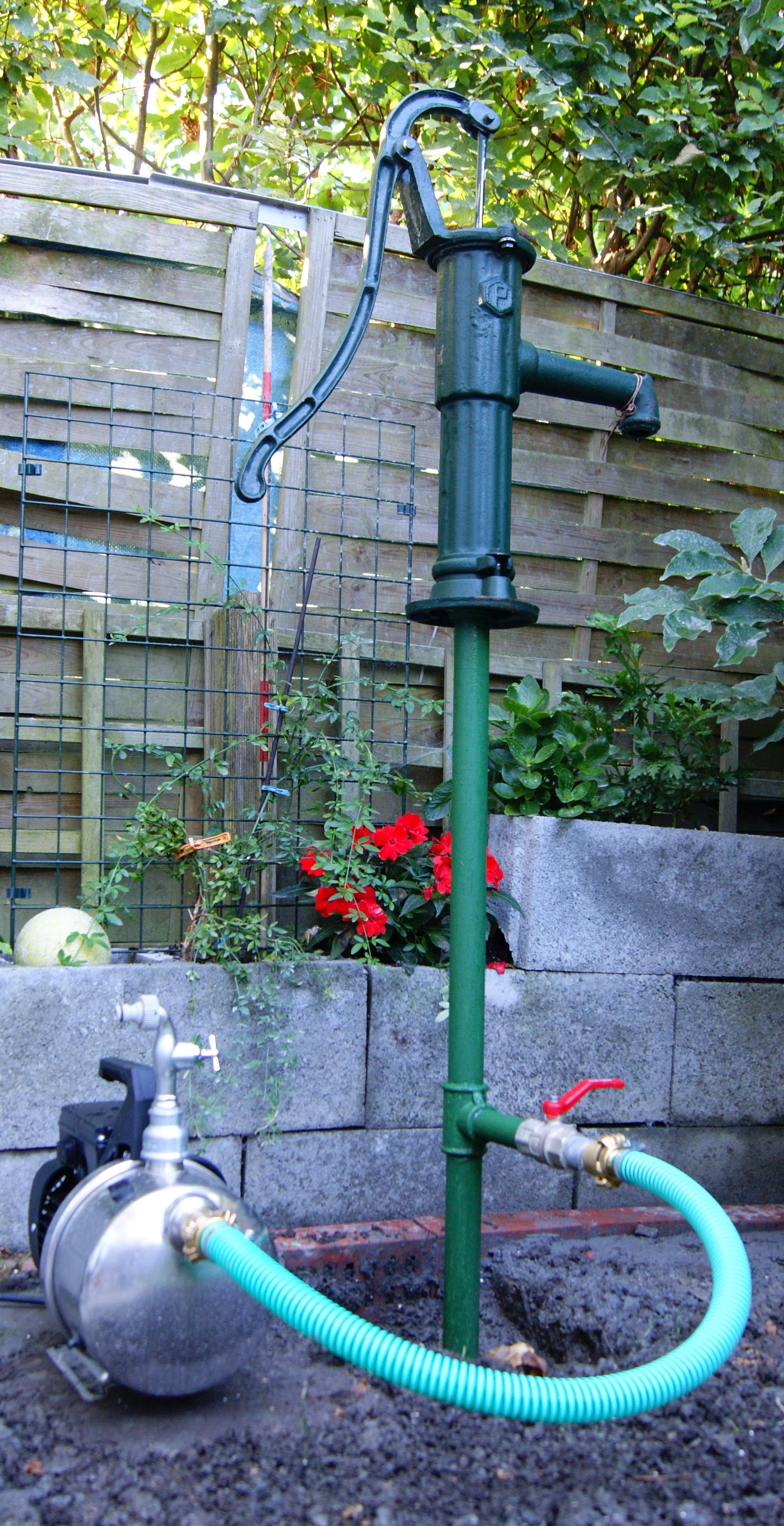 New Abyssinian well installed in Dornbirn, Vorarlberg, Austria with hand pump and motor pump.